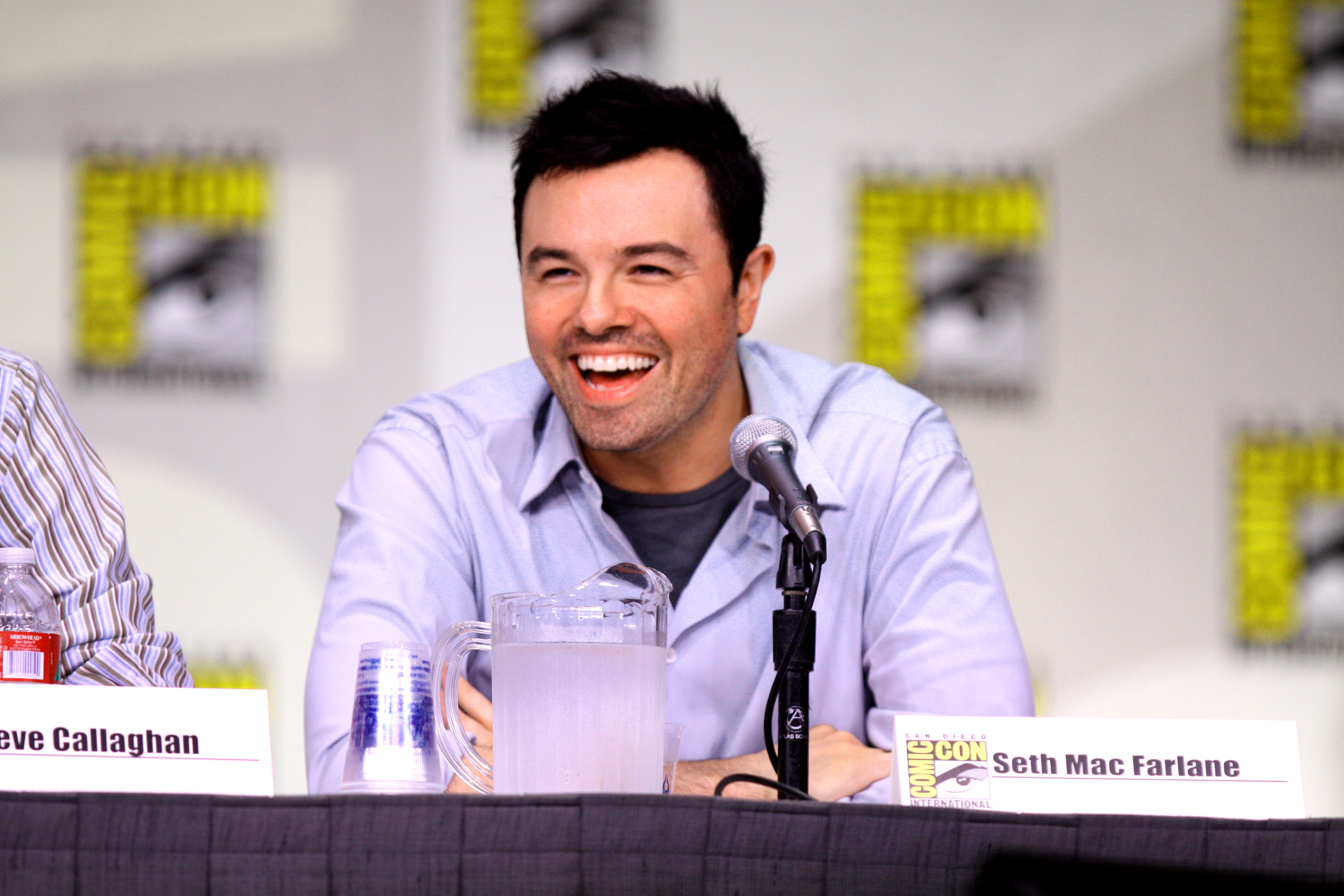 Seth MacFarlane at the 2011 San Diego Comic-Con International in San Diego, California.